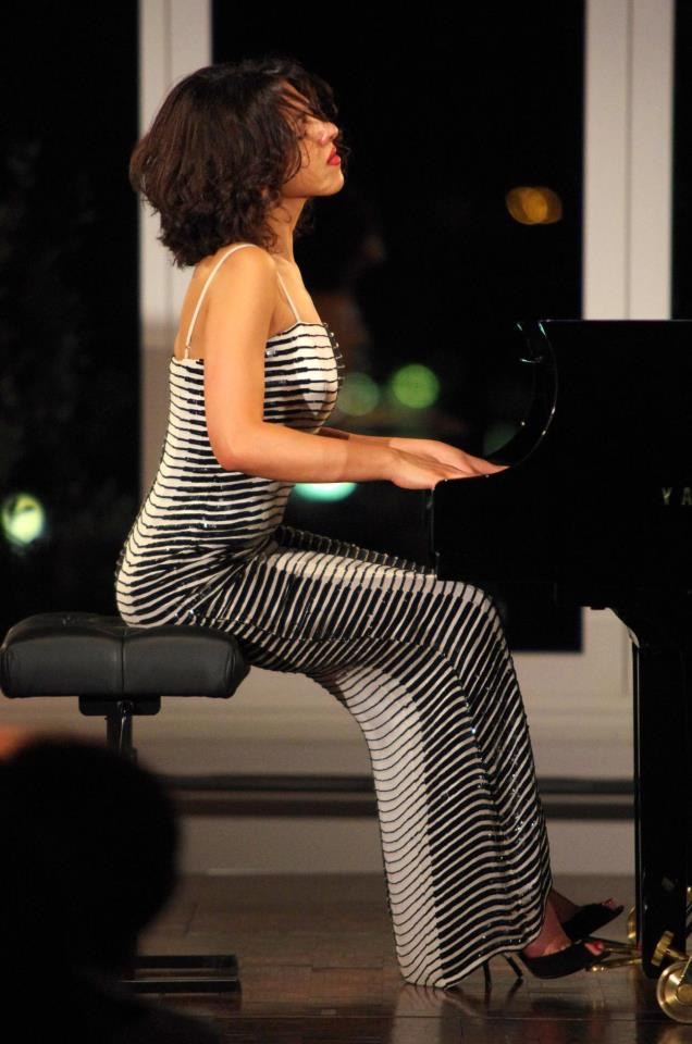 xatia